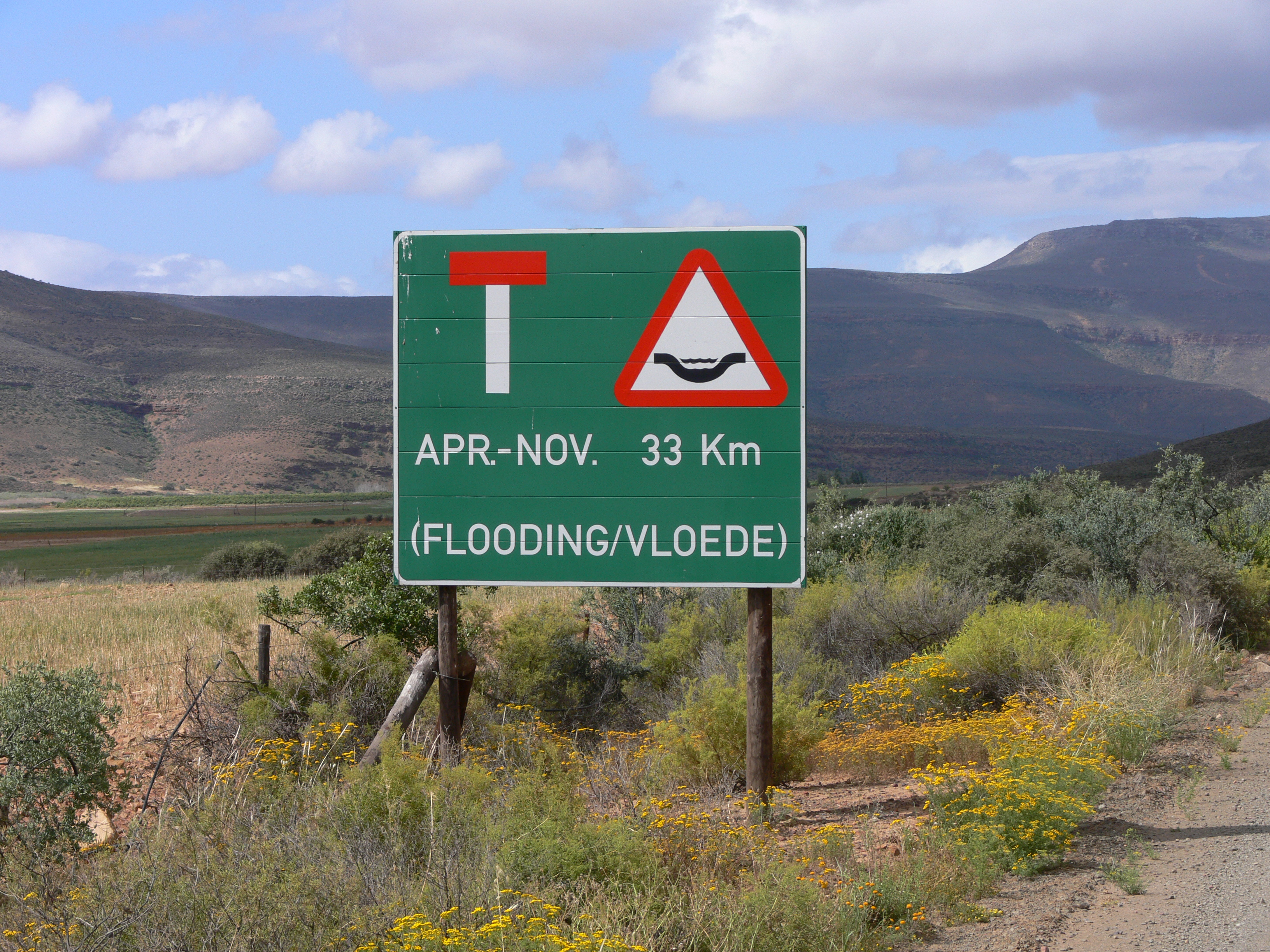 Biedow Valley, South Africa. This road is a dead end for several months each year, until the river has dried up.